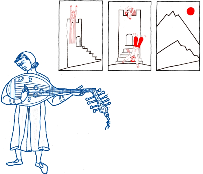 Narrare un monumento is a site-specific and relational artwork by TooA Francesca Cogni e Donatello De Mattia. It is a guided tour to a monument to discover its past; followed by the invention of a new story around it. The story is performed by a professional actor. It was commissioned by Associazione Amici del Museo delle Grigne Onlus and produced for Vestire i paesaggi, Ecomuseo delle Grigne and Wiki Loves Monuments.